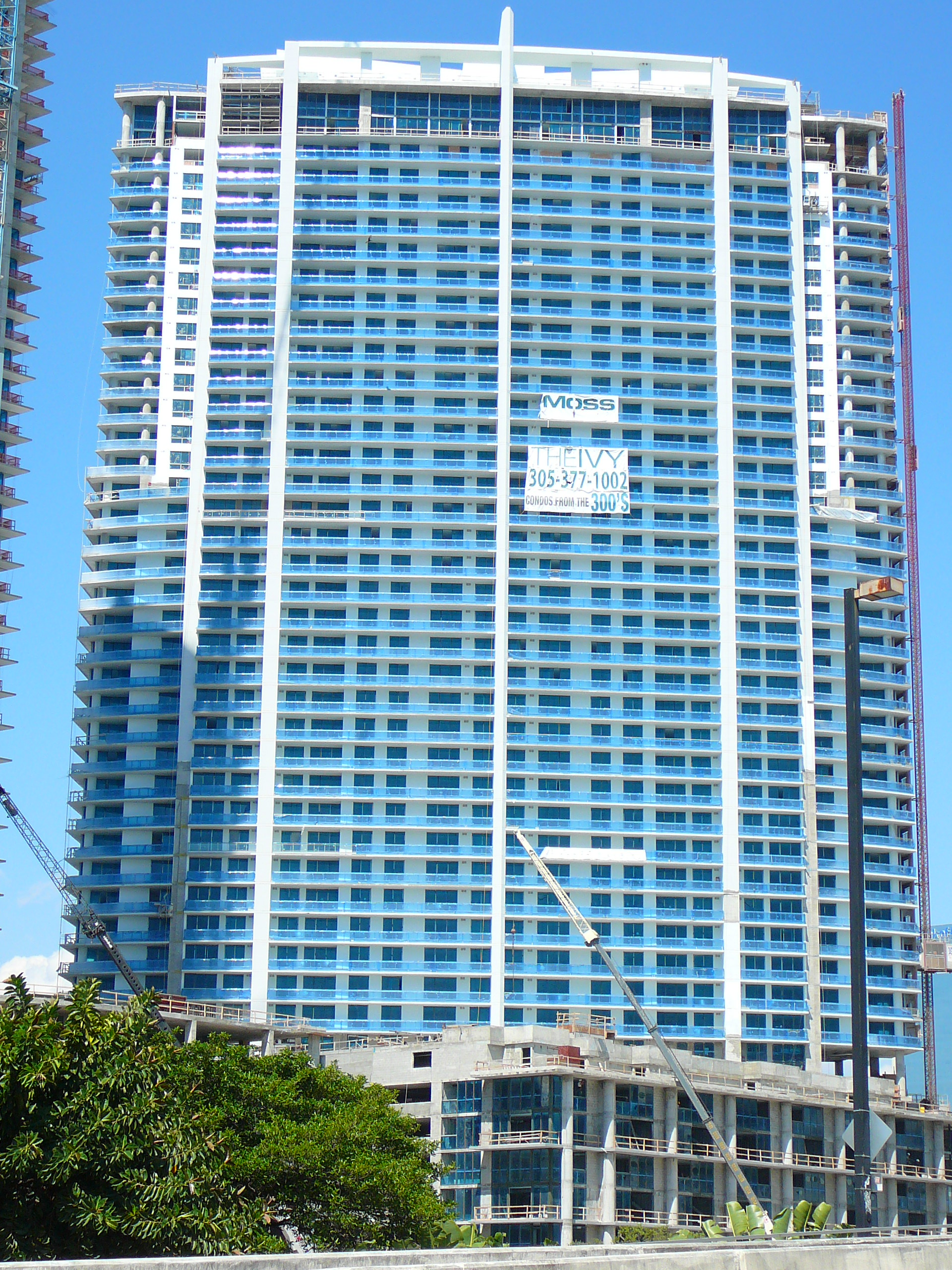 Digital photo taken by Marc Averette. The Ivy residential tower in downtown Miami as it nears completion.